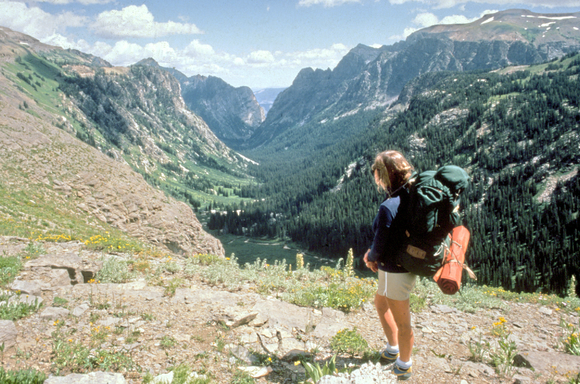 Backpacker in Grand Teton National Park